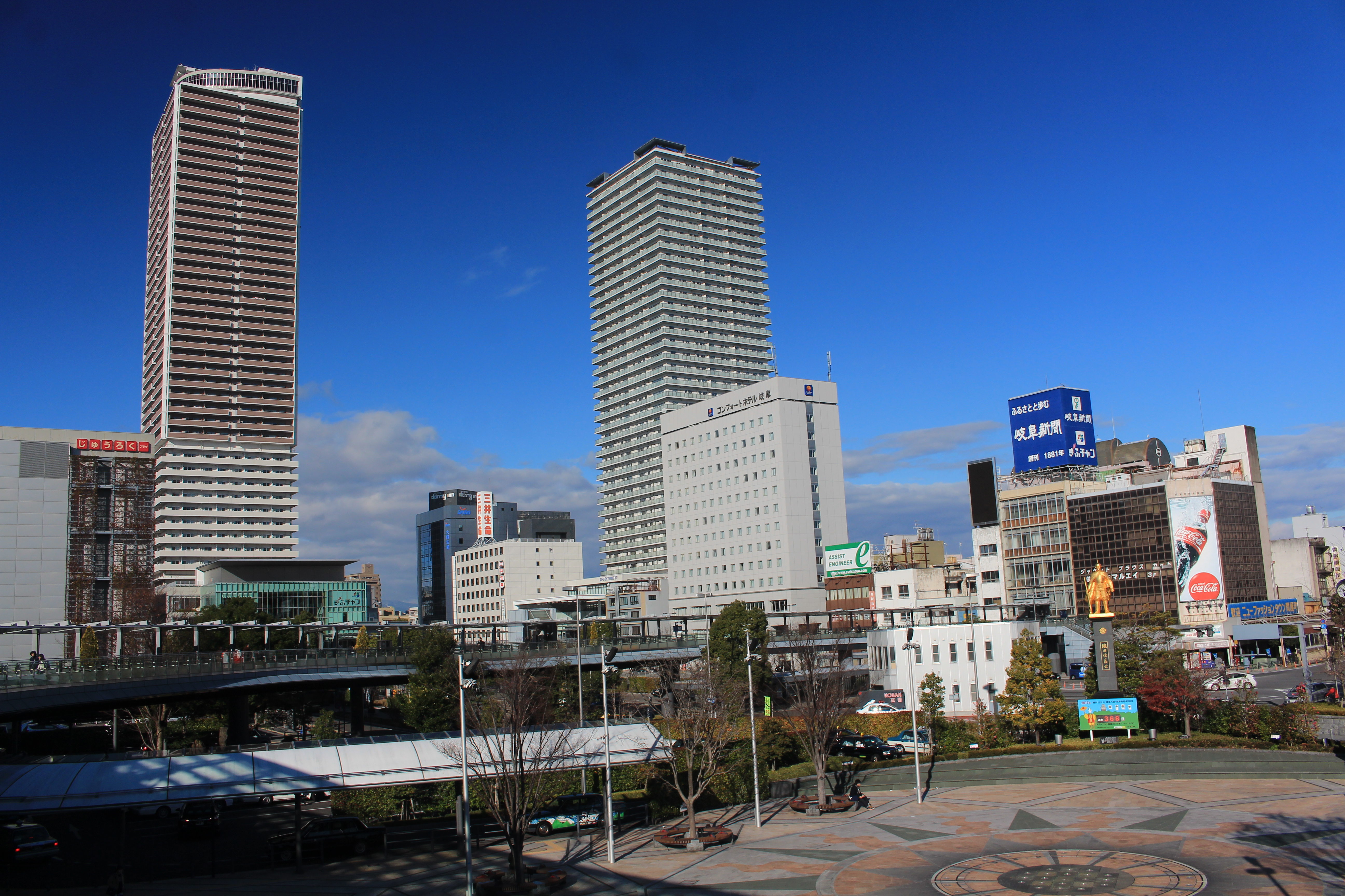 Gifu City Tower 43 and Gifu Sky Wing 37 from Gifu Station in Gifu city, Gifu prefecture, Japan.